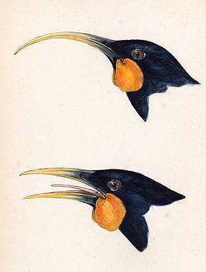 John Gould (1804-1881) Huia (Heteralocha acutirostris) female top, male, below. From A synopsis of the Birds of Australia and the adjacent islands, London 1837-38. John Oxley Library, State Library of Queensland RBQ 598.2994 GOU